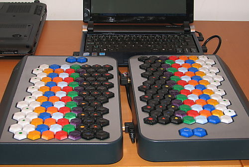 A jammer built from two Axis-49 keyboards. Green is assigned to C, Blue to E, Red is G. Color Dots on the black and white keys mark which note they are the flat/sharp of. Bright perhaps, but it's an essential map to speed learning.